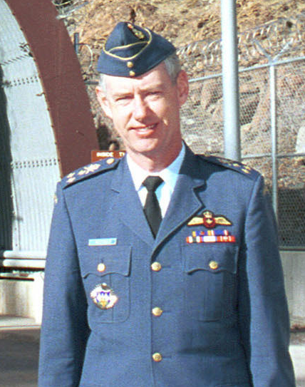 Lieutenant General George Macdonald, Vice Commander, NORAD (North American Aerospace Defense Command) in front of the Cheyenne Mountain Complex tunnel entrance in Colorado.